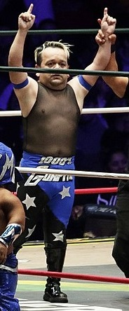 Professional wrestler Guapito during a match on November 30, 2018